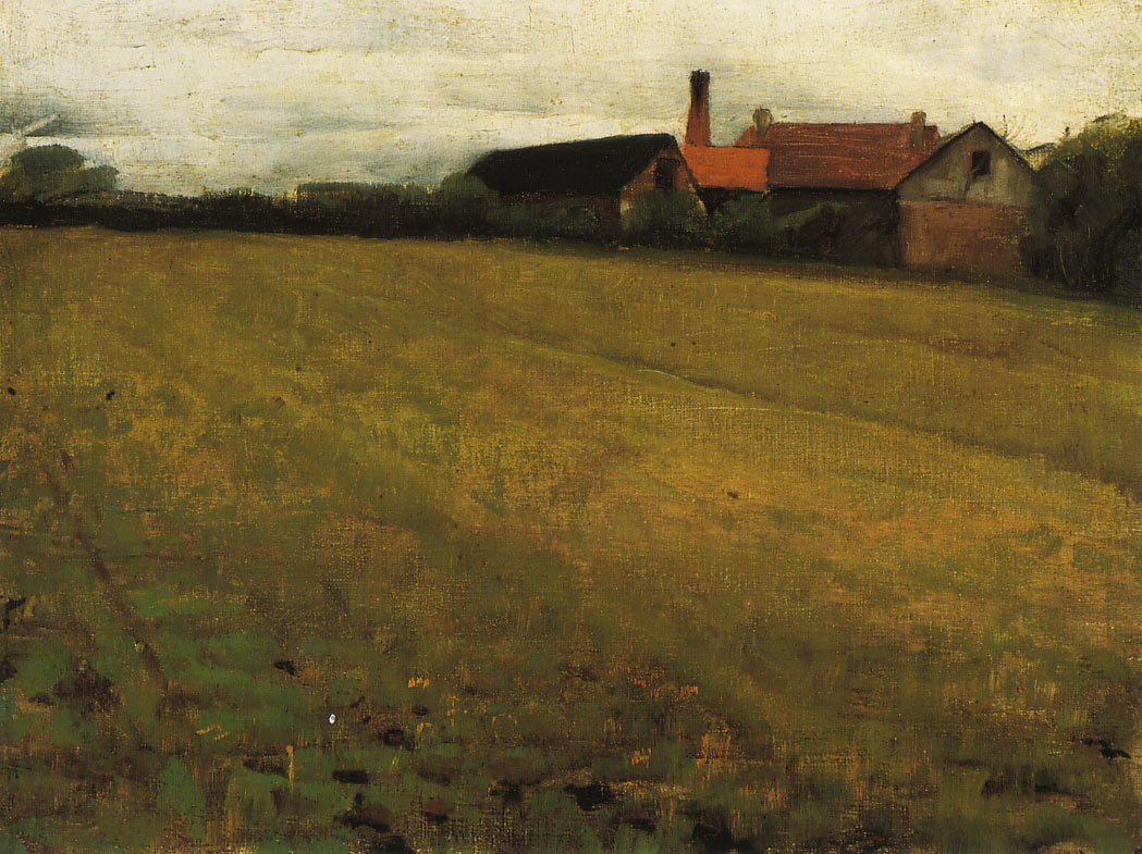 "Landscape with Farm Building," by the Philadelphia artist Cecilia Beaux, oil on canvas. Courtesy of the Pennsylvania Academy of Fine Arts.